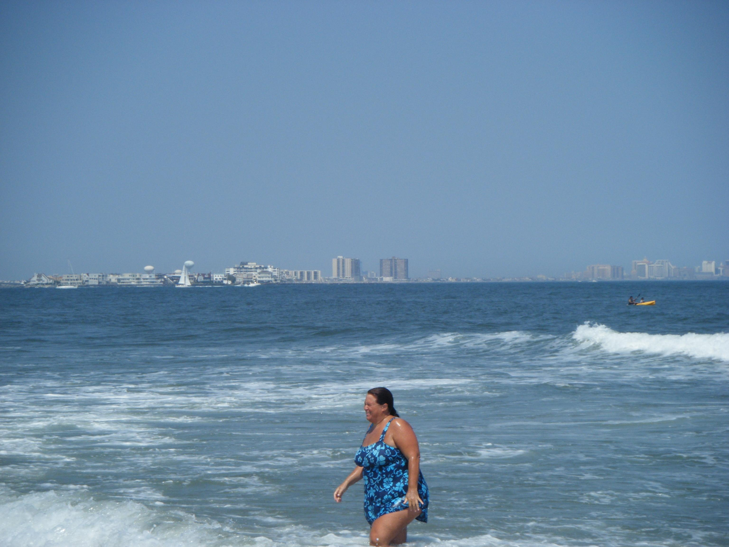 Absecon Island viewed from Ocean City, New Jersey